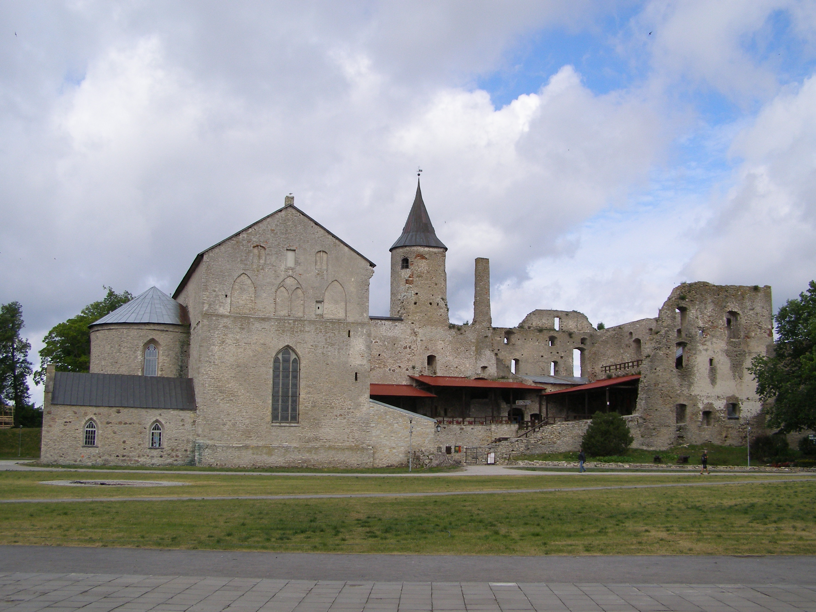 Haapsalu Castle, Haapsalu, Estonia. My own photo, summer 2007